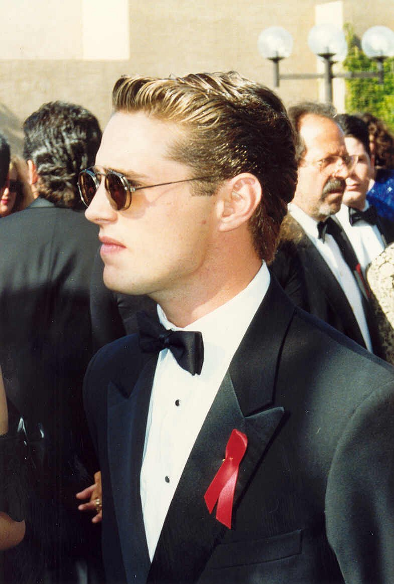 Photo taken at the 44th Emmy Awards 8/92- Permission granted to copy, publish or post but please credit "photo by Alan Light" if you can